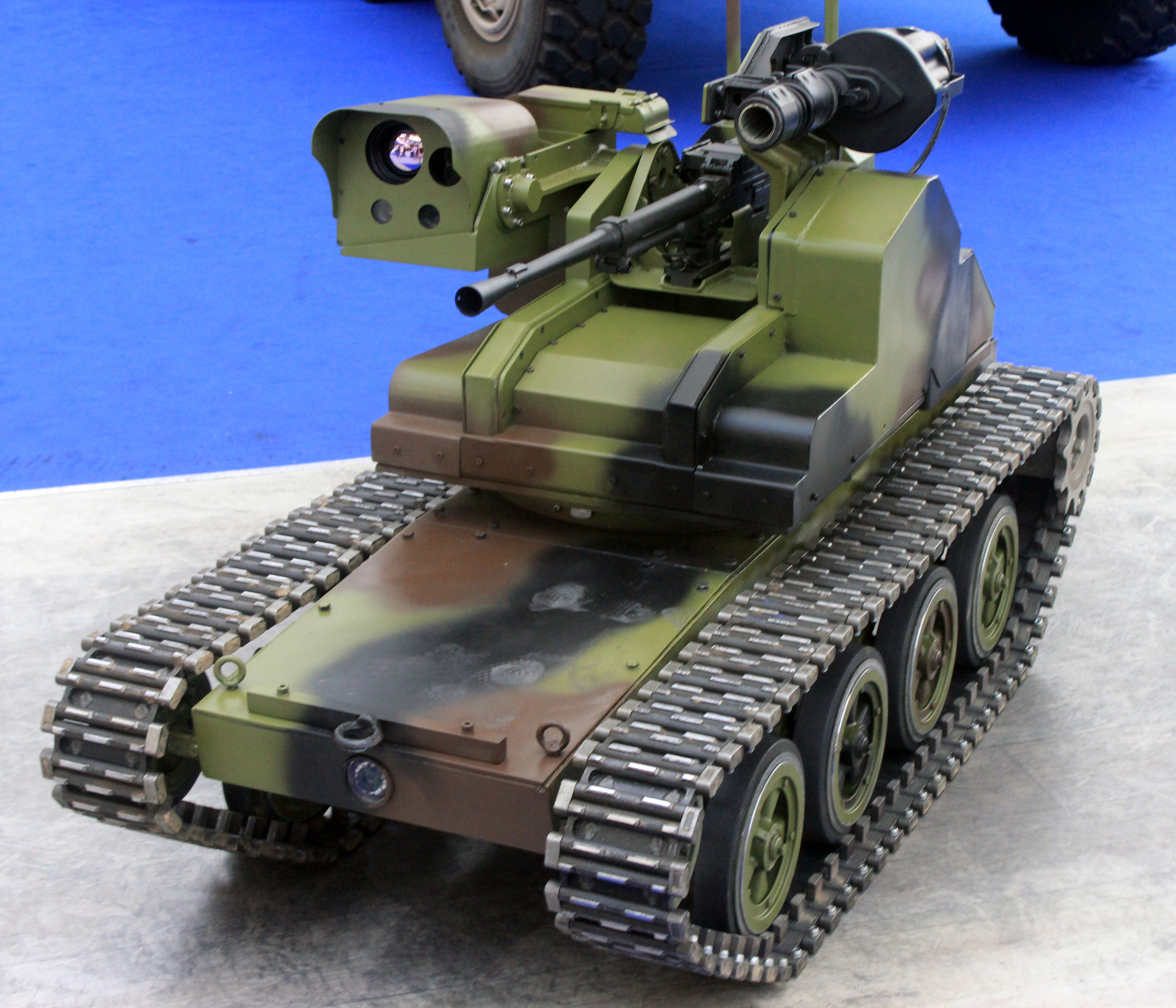 Miloš tracked armed robot platform on display at Partner 2017 military fair.